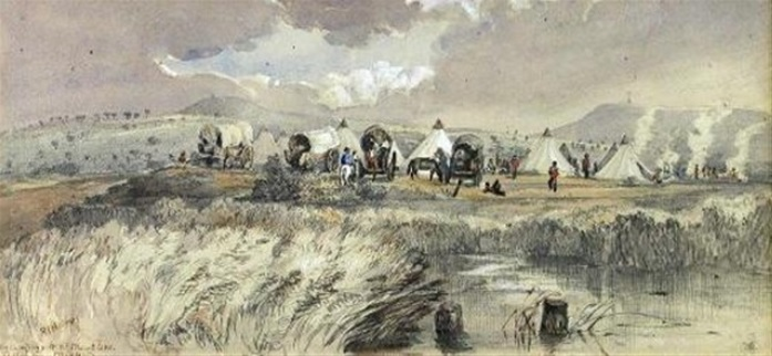 Rhoda Holmes Nicholls, Encampment near Mount Coke, Kaffraria, Cape of Good Hope, South Africa, circa 1881-1884, watercolor